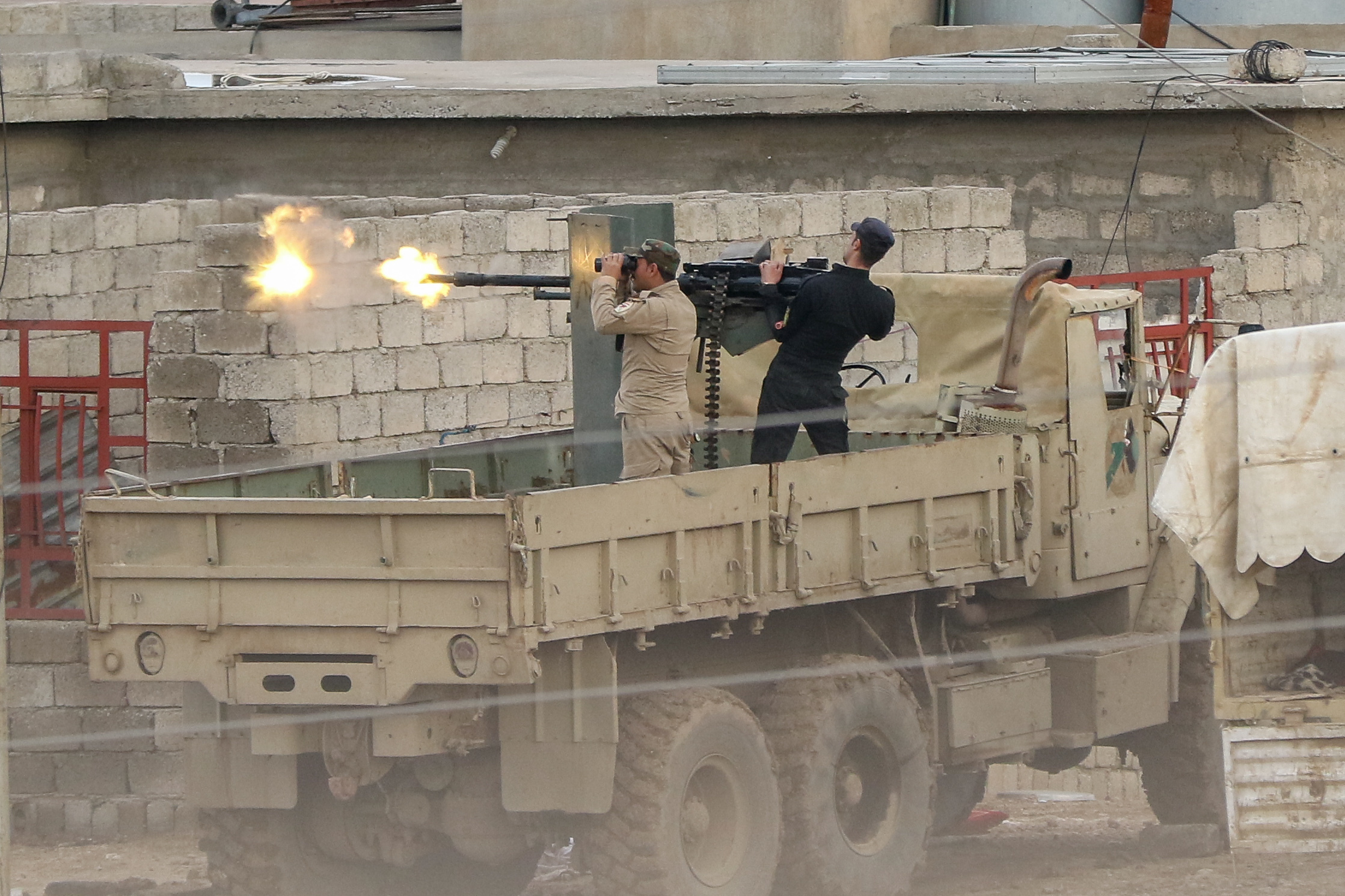 Members of the 9th Iraqi Army Division, supported by Combined Joint Task Force - Operation Inherent Resolve, fire a heavy machine gun at ISIS fighter positions near Al Tarab, Iraq, March 17, 2017. CJTF-OIR is the global Coalition to defeat ISIS in Iraq and Syria. (U.S. Army photo by Staff Sgt. Jason Hull)